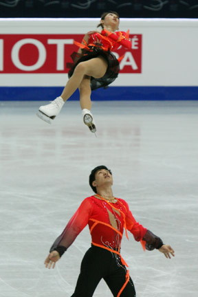 Zhang Dan and Zhang Hao perform a triple twist lift at the 2008 World Figure Skating Championships